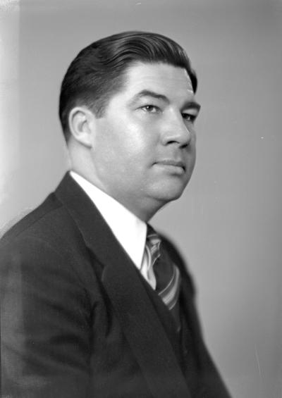 Representative Edward J. Reilly, 1937